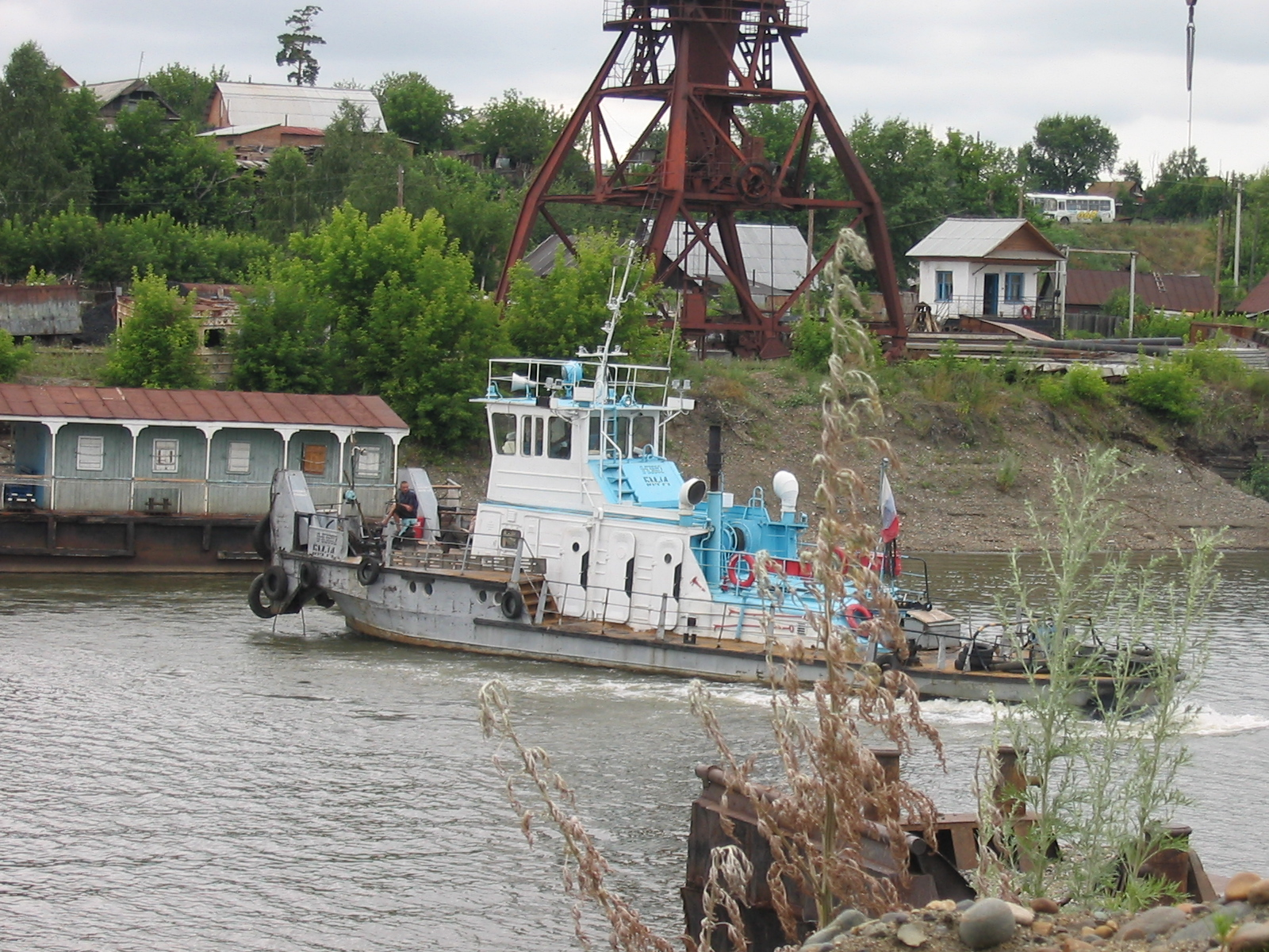 Riverport in Biysk (Biya river). Ships: BM-14